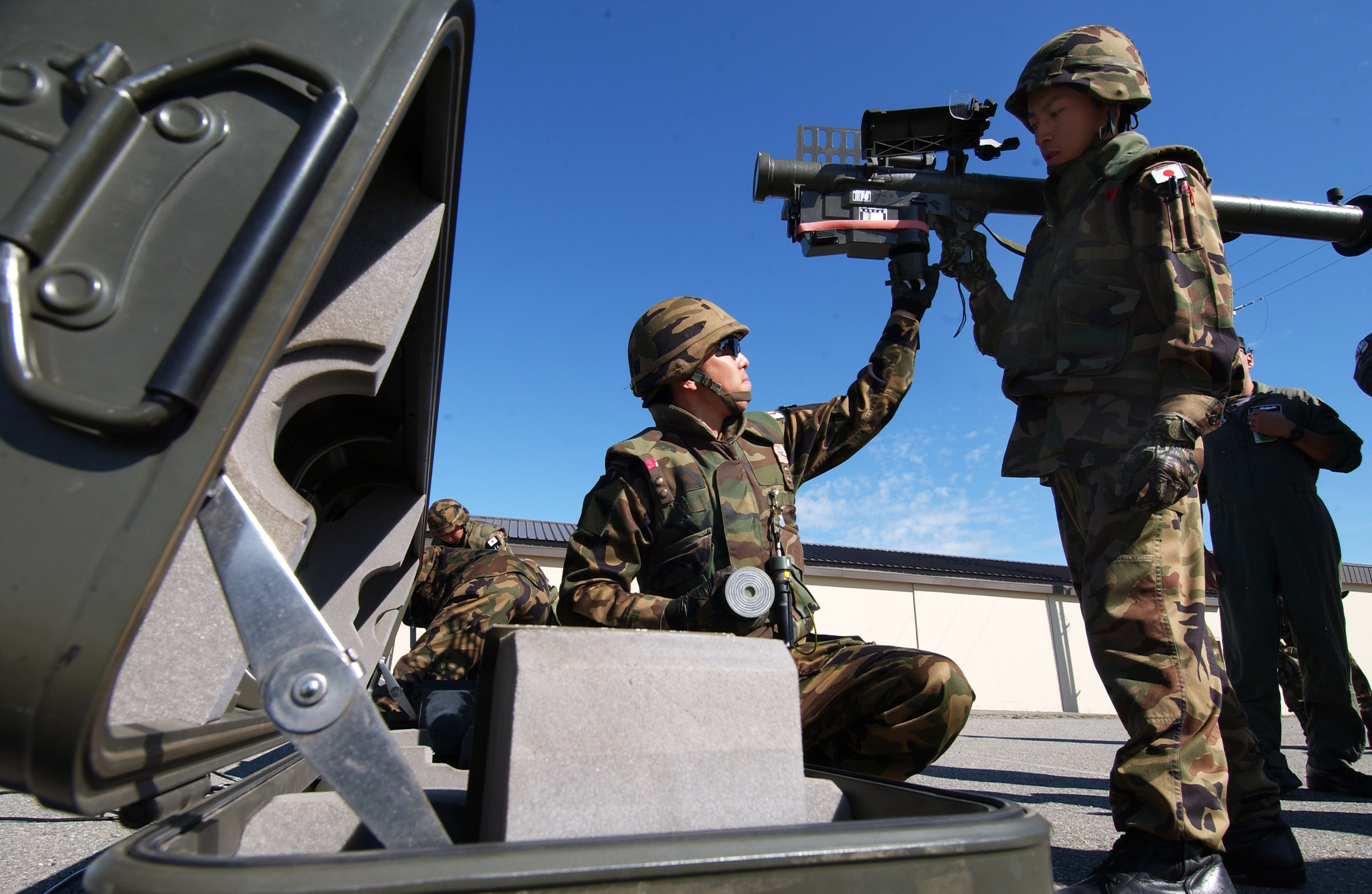 Staff Sgt. Masanori Soma, left, replaces a battery pack on a stinger while Staff Sgt. Akira Takahashi holds it in place June 6, 2008, at Eielson Air Force Base, Alaska during RED FLAG-Alaska 08-3. The Japanese Air Self Defense Force hosts a demonstration showing other Red Flag participants how their stinger team operates.